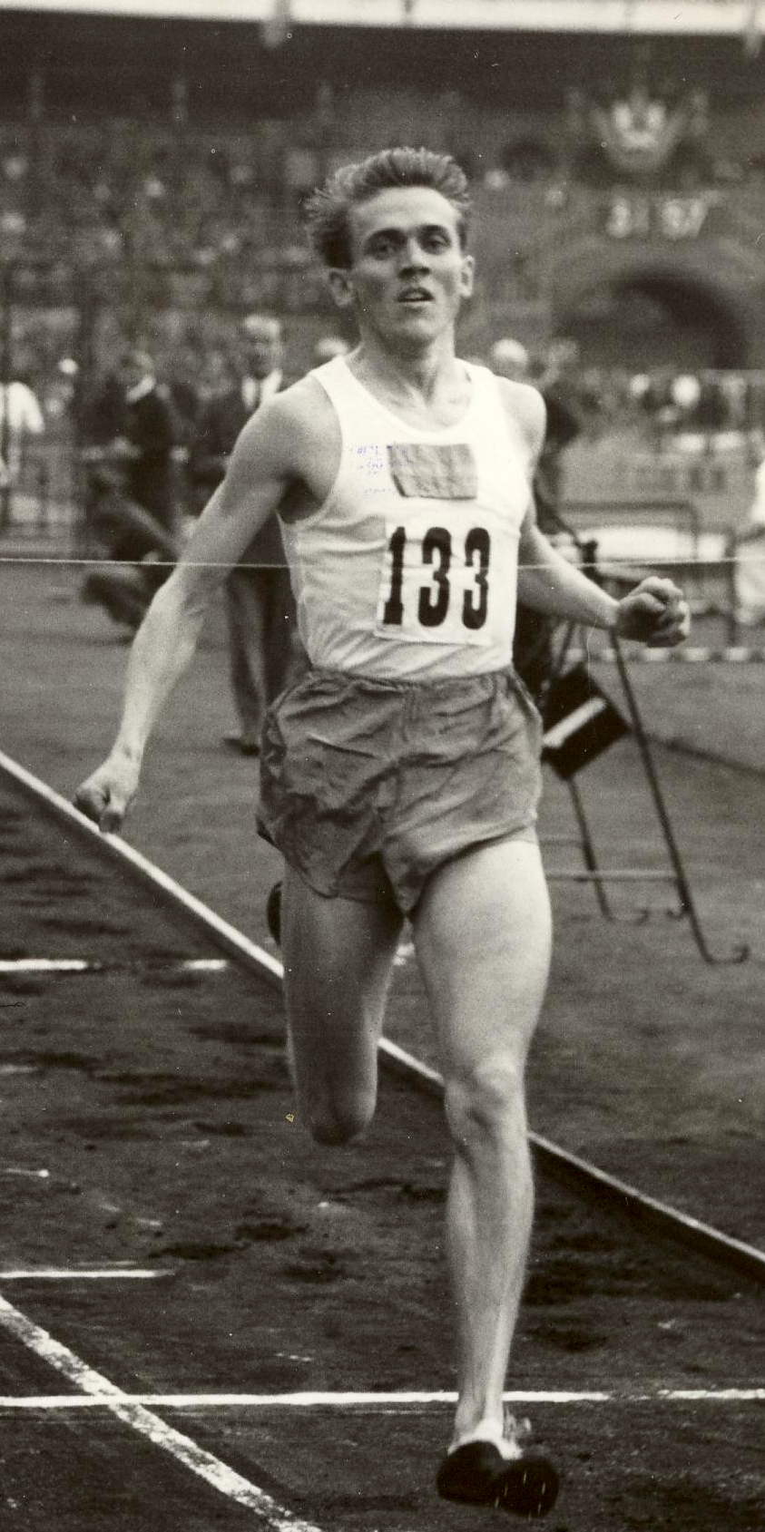 Ingvar Ericsson (runner) at an international meet against Hungary